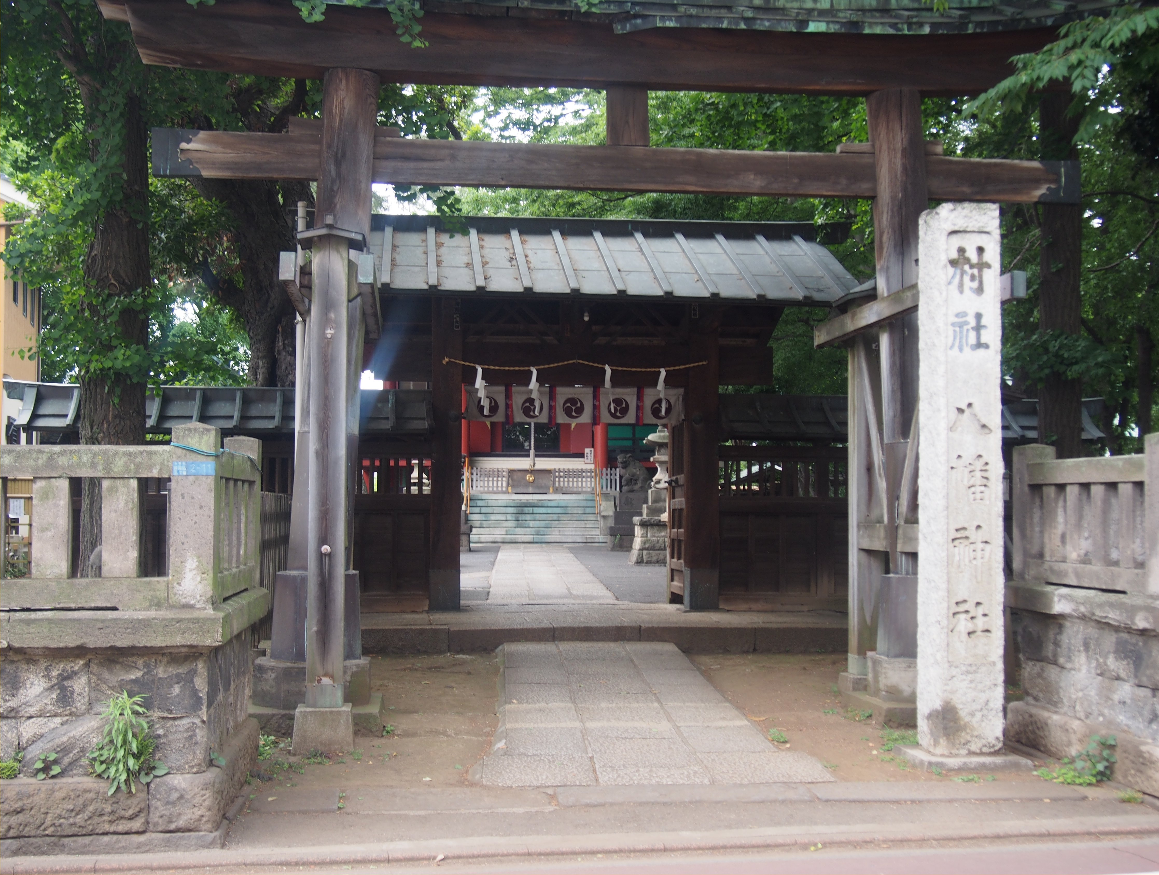 A photo of Magome Hachiman Jinja,Minamimagome,Ota-ku,Tokyo,Japan.